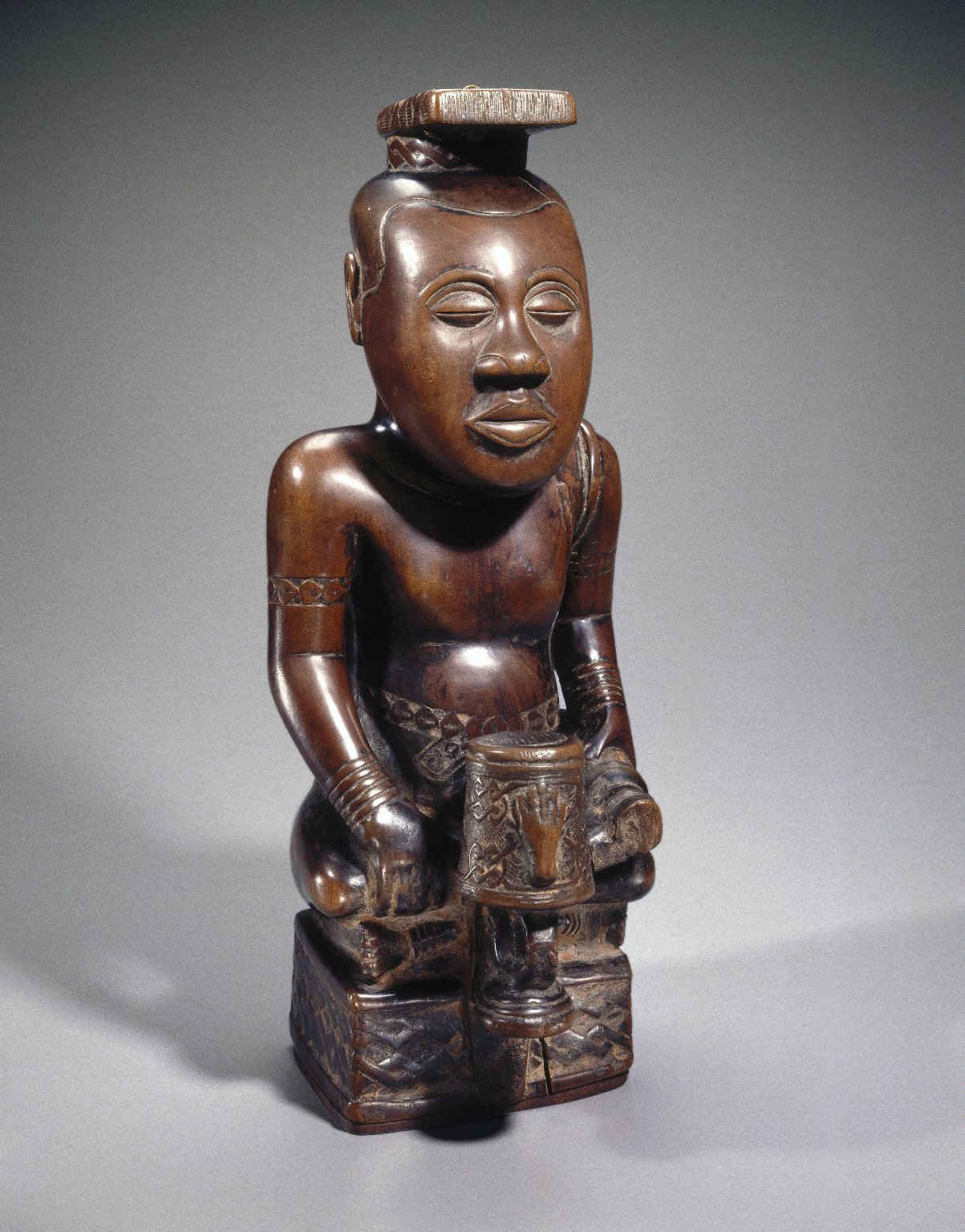 The figure sits cross-legged on a rectangular platform which is decorated with geometric chain-like bands. His right hand rests on his knee, the left hand holds a ritual knife. The head is large, with finely carved features and a curved hairline. His eyes are closed. The headdress consists of a decorated board atop a cylindrical ring. He wears a belt incised with shell motifs, armbands, bracelets, a rounded shoulder strap, and a belt with richly decorated back apron. In front of him is a cylindrical drum set on a small perforated pedestal. The drum is decorated with a hand and intertwined geometric motifs. Condition: very good. Dark, mellow patina throughout. There is a fine crack down the p. left torso, a larger one at p. left through foot and base. A recessed rectangular patch at p. left jawline. Minor checks at lower back and right pedestal. Some chips at left base, insect holes in base.